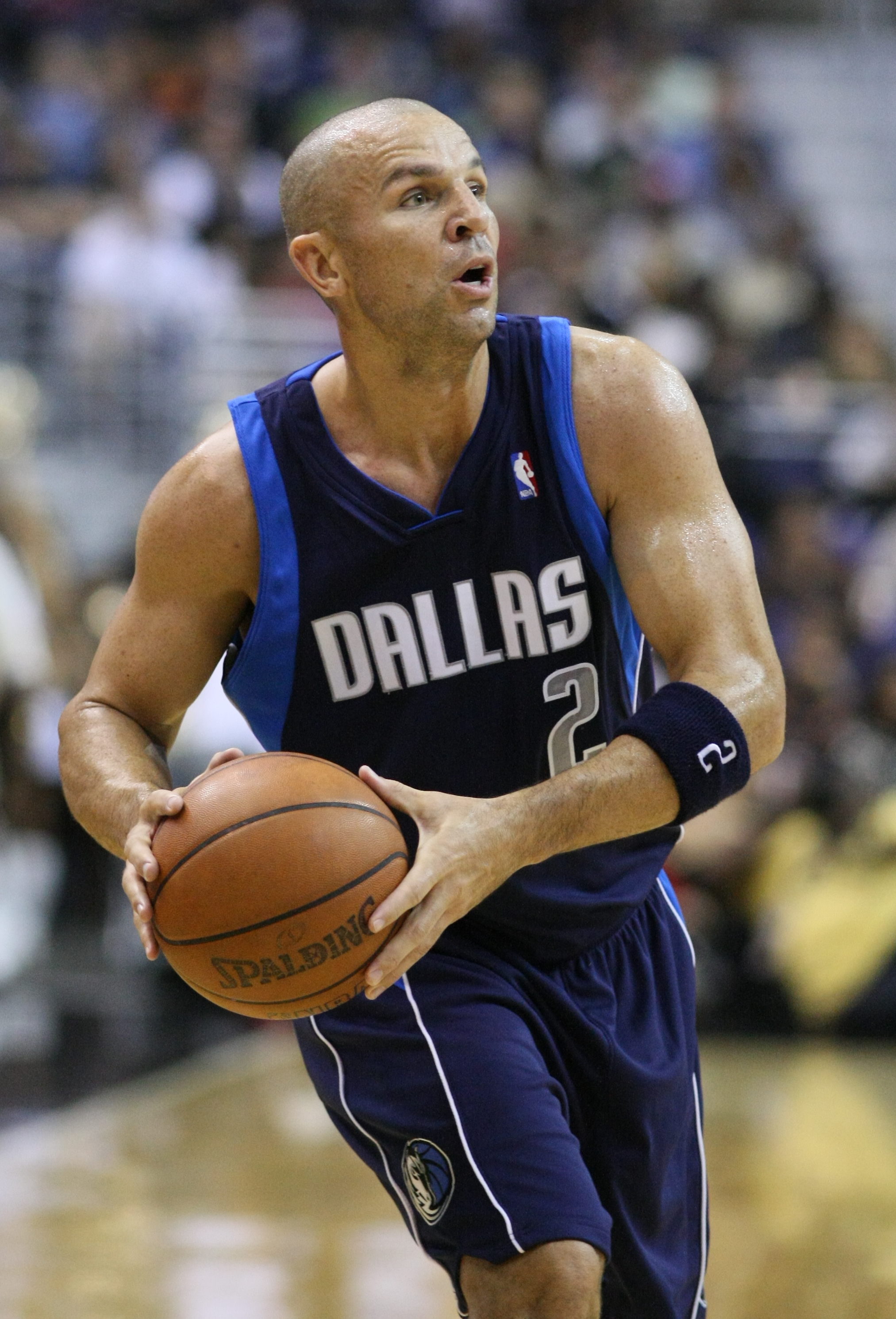 Jason Kidd is an American basketball player, pictured here with the Dallas Mavericks.